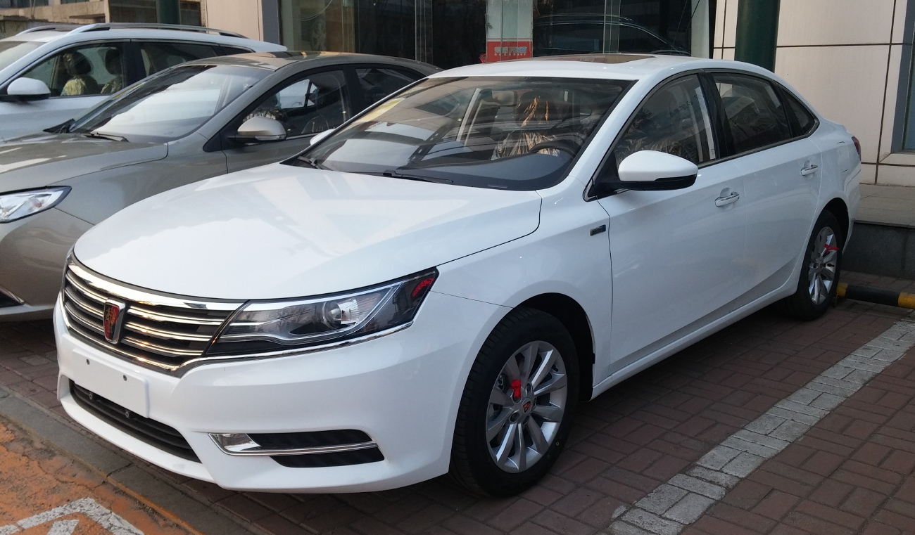 Roewe i6 photographed in Shenyang, Liaoning province, China.